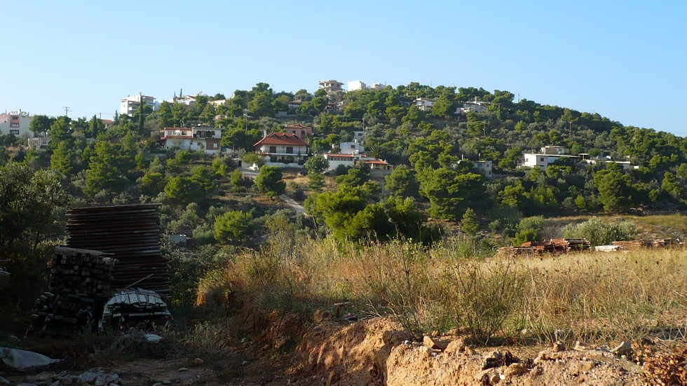 The picture depicts the small Krassas settlement at the pentelikon hill.